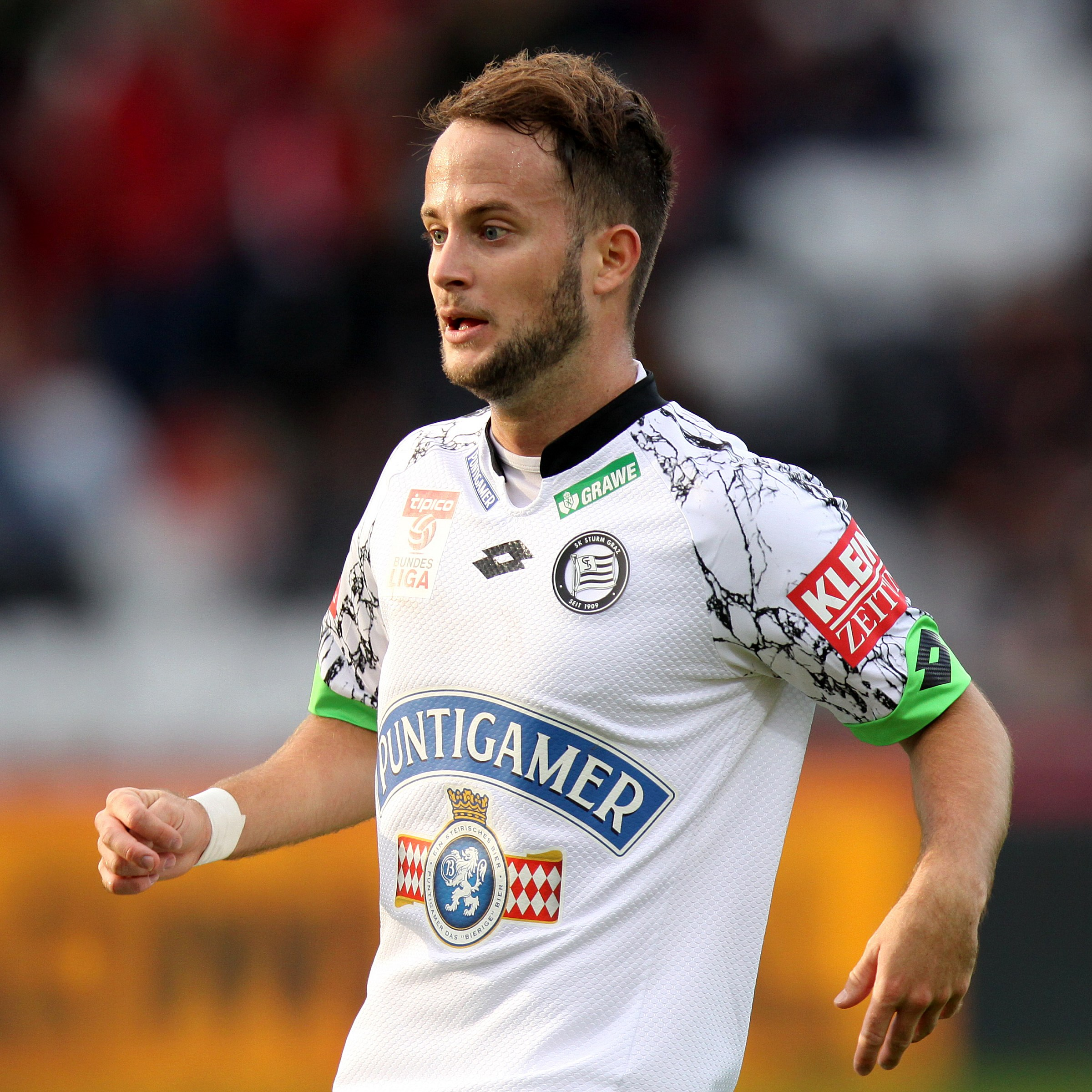 Match of the Austrian Football Bundesliga – FC Admira Wacker Mödling (red shirts) vs. SK Sturm Graz (white shirts) 0-1 (0-0) on 2015-09-27 in Bundesstadion Sudstadt – The photo shows Christian Klem